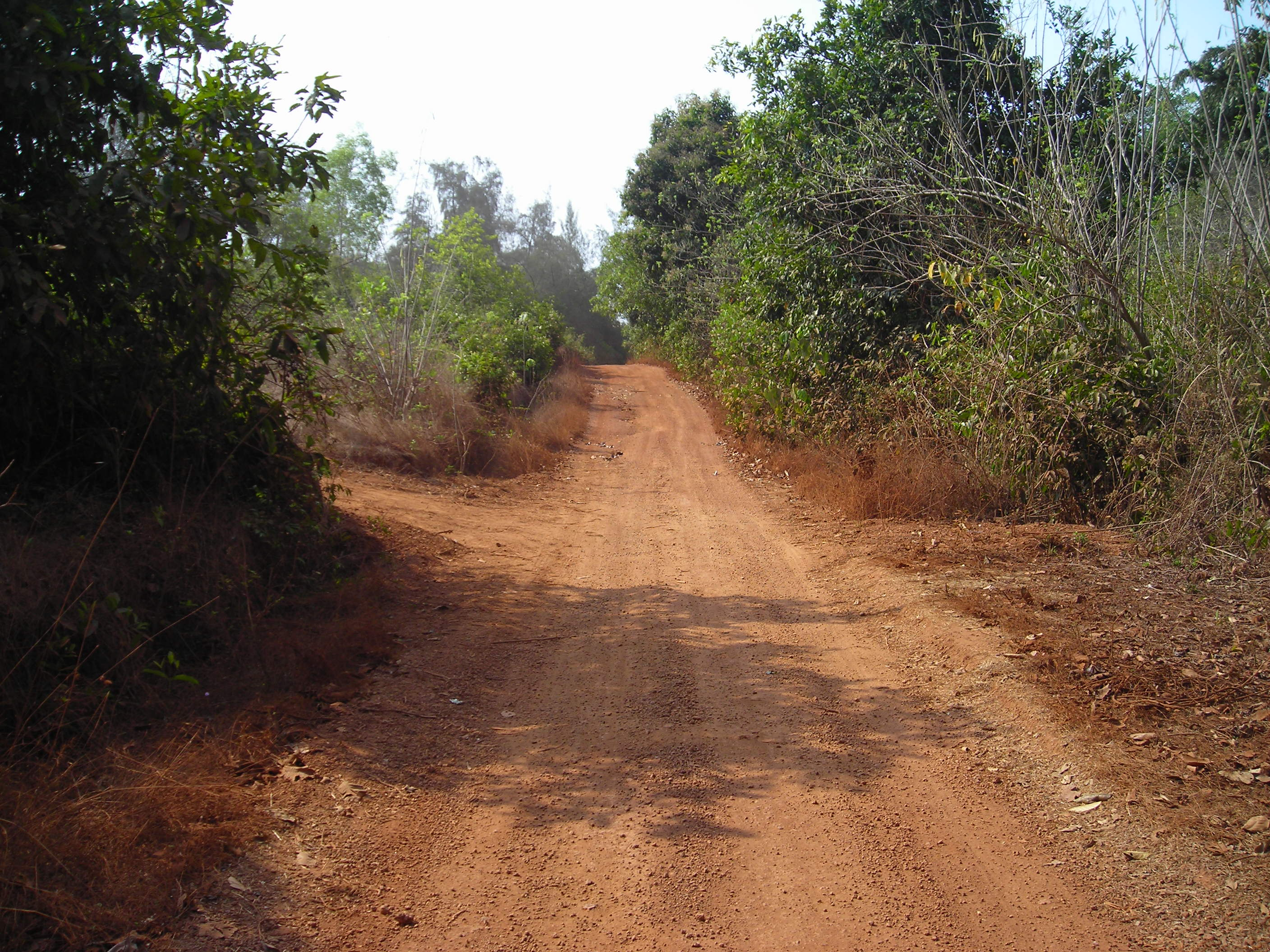 KAVATHAR